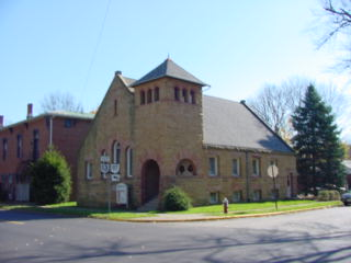 Photo image of the North West corner of the church.